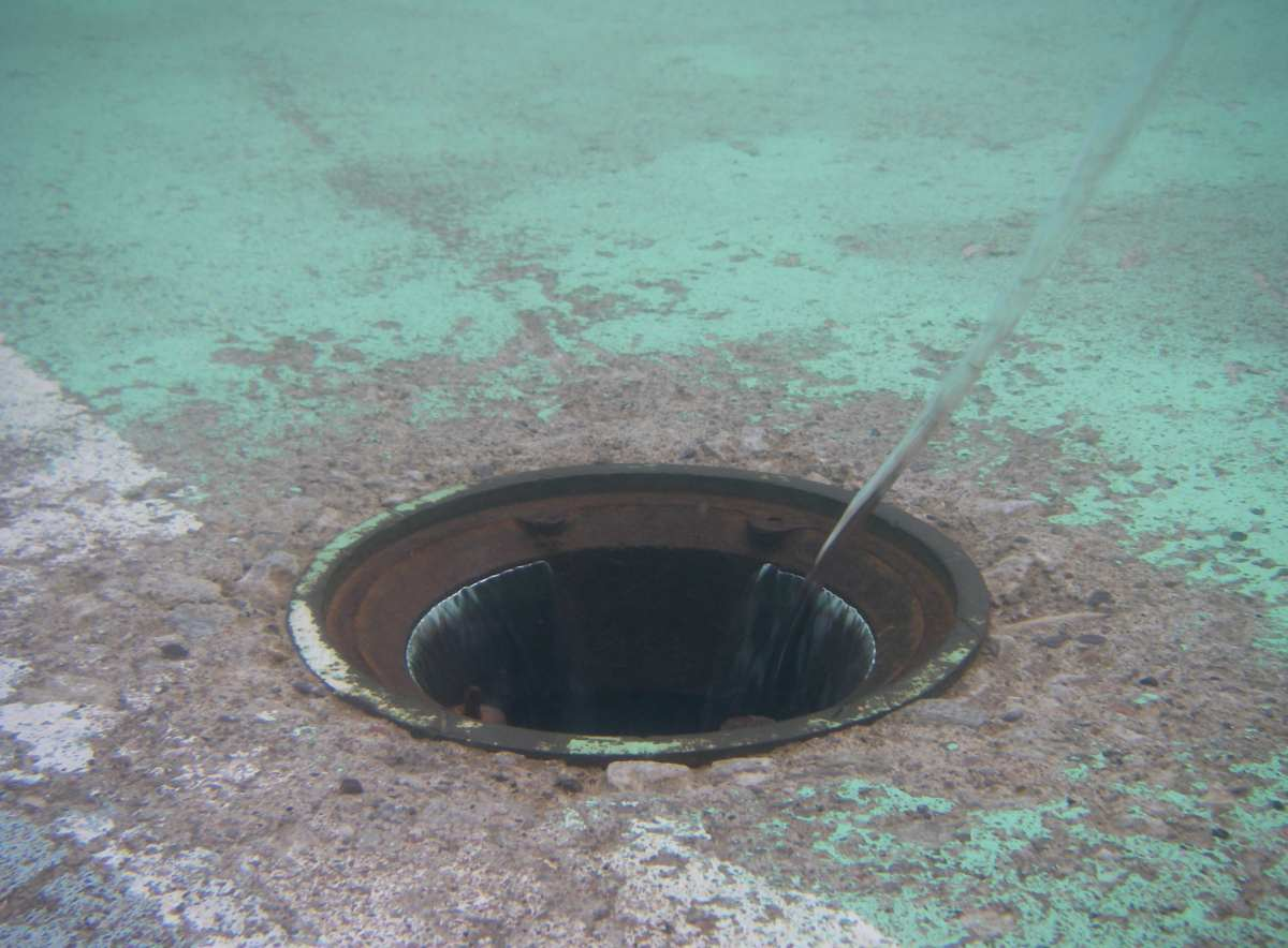 Pool drain vortex as viewed from below the water at Grange Park wading pool